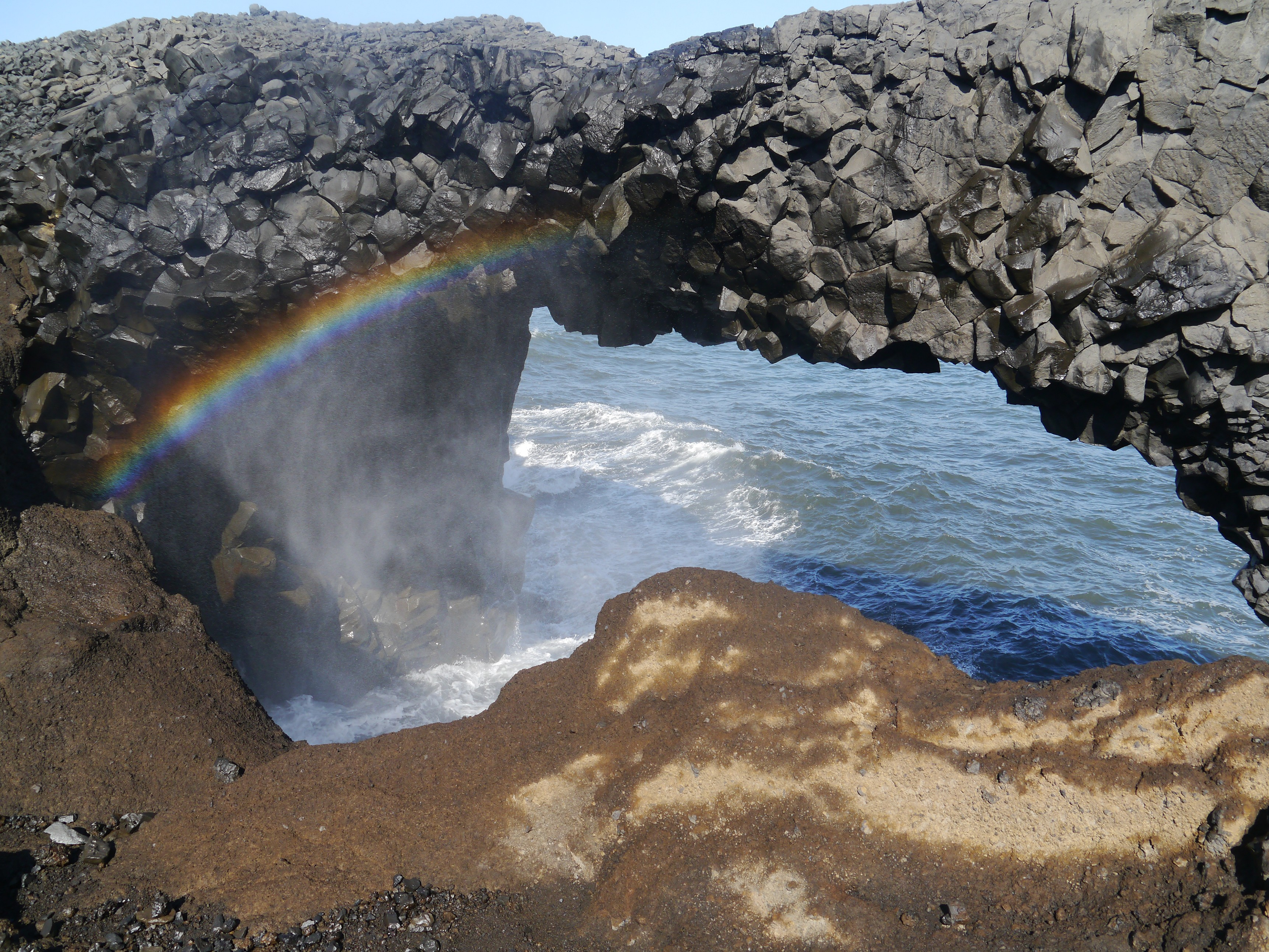 Dyrhólaey Peninsula, Iceland